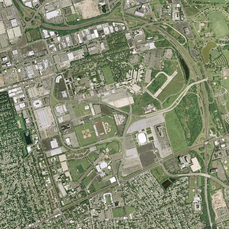 USGS digital orthophoto of Mitchel Air Force Base in New York